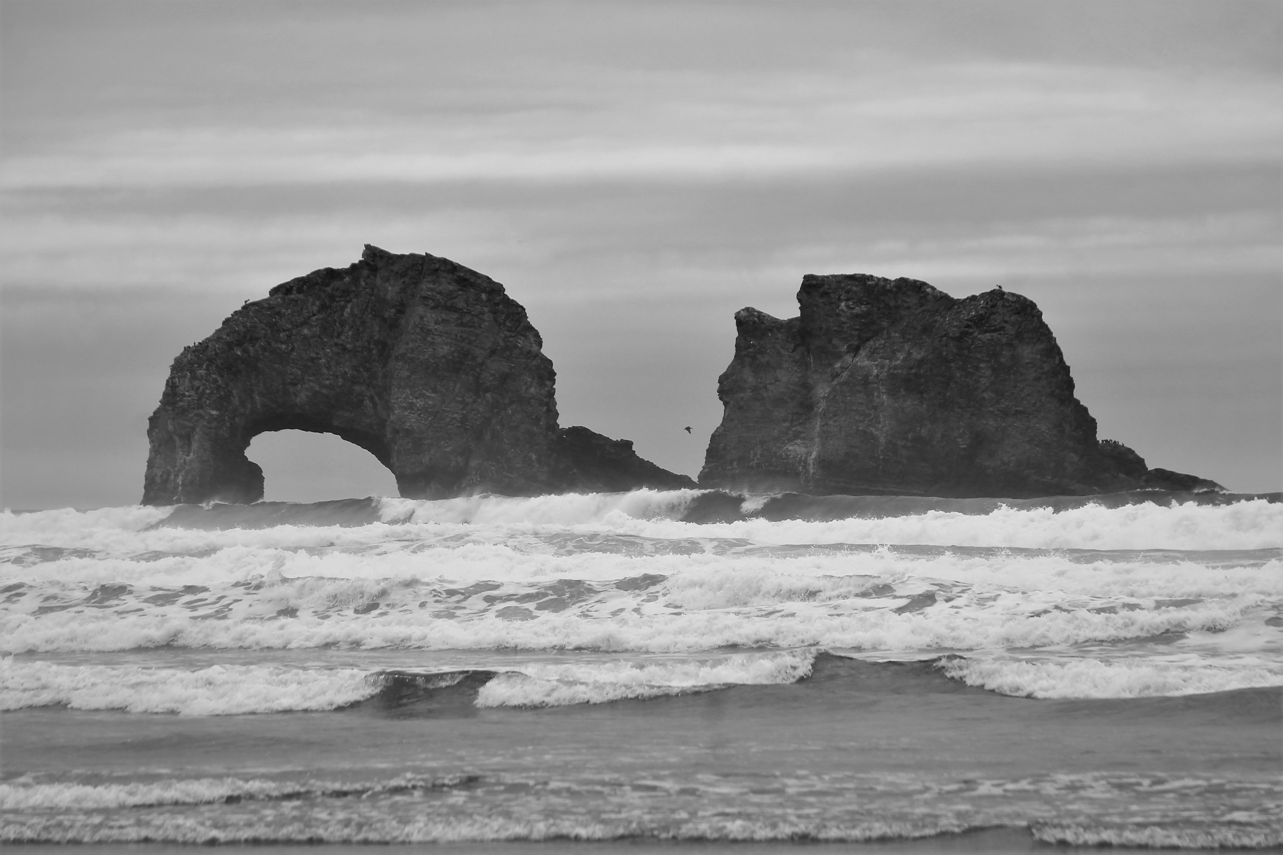 The rock formation seen from the shores of Rockaway Beach.